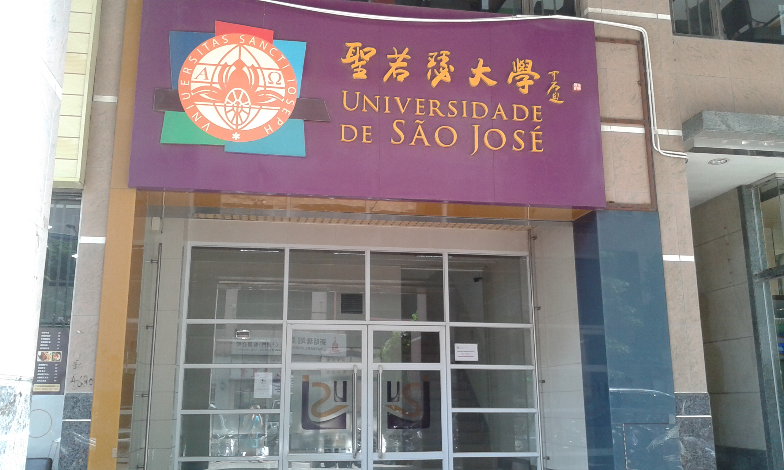 Gate of University of Saint Joseph, Macau